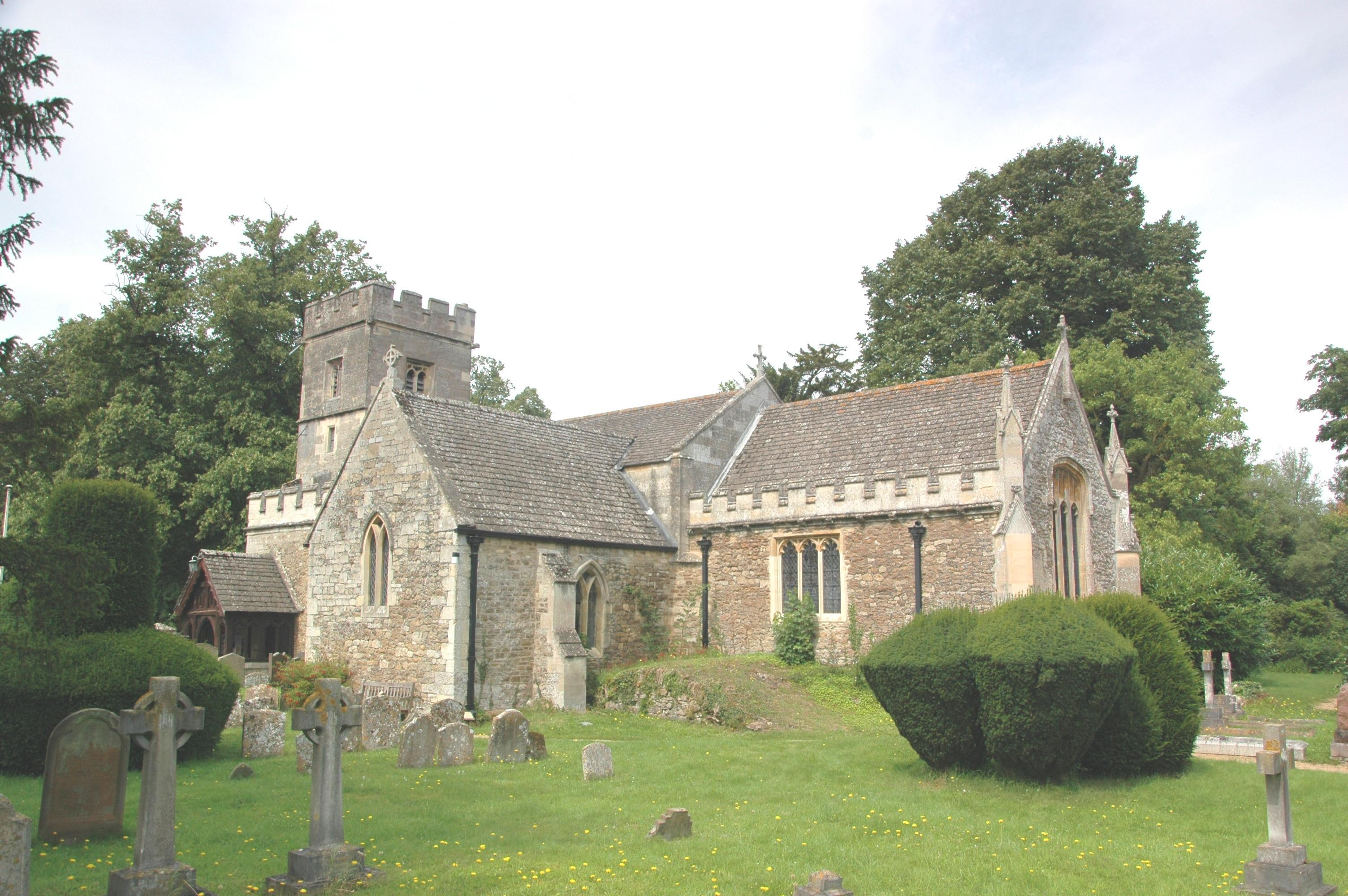 Church of England parish church of St James the Great, Radley, Oxfordshire (formerly Berkshire): view from the southeast, showing 13th century south transept, early 14th-century chancel & 15th century tower